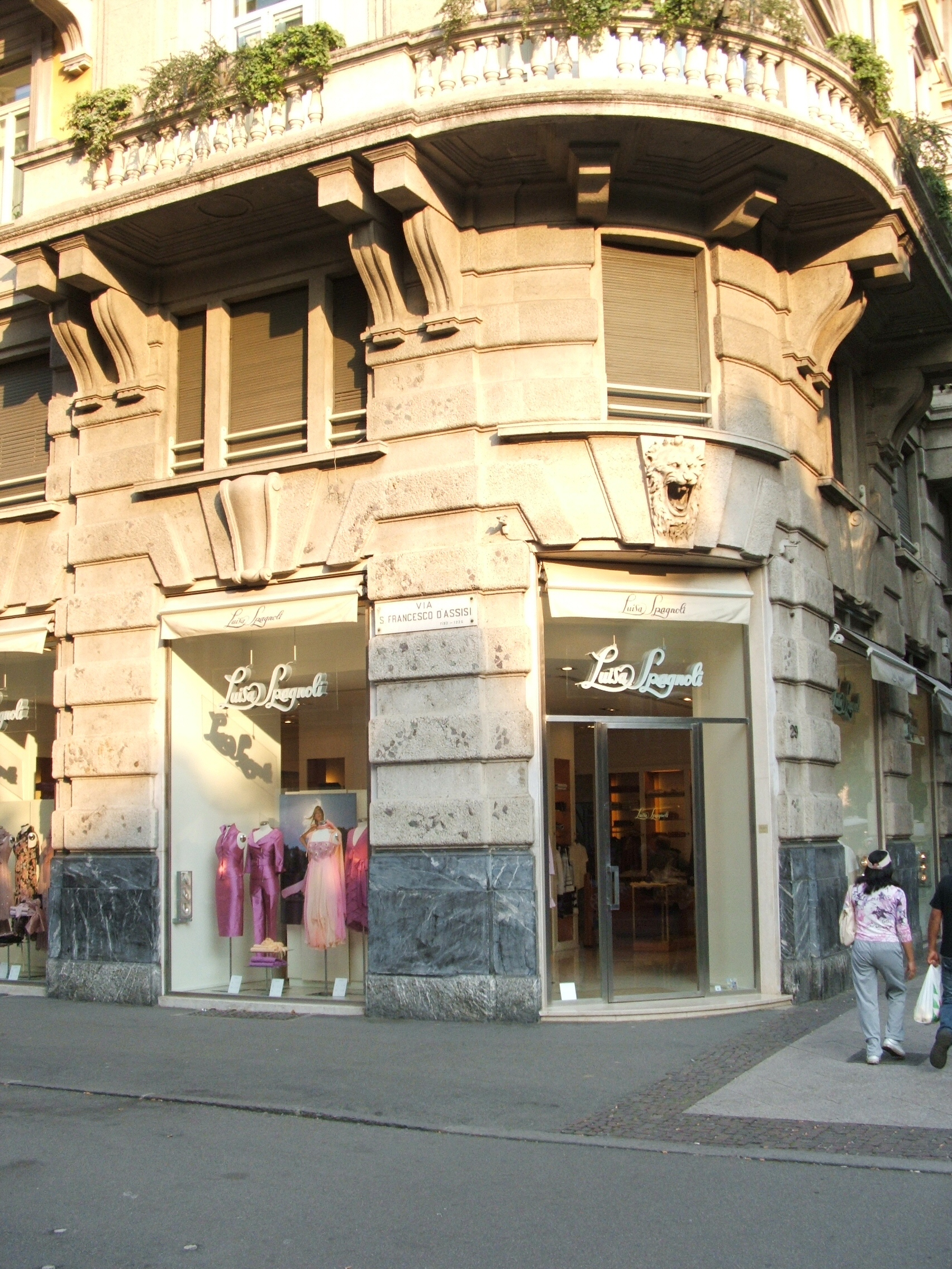 Bergamo - Lombardy - Italy, Luisa Spagnoli shop.